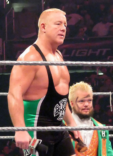 Finlay and his son in a WWE House show